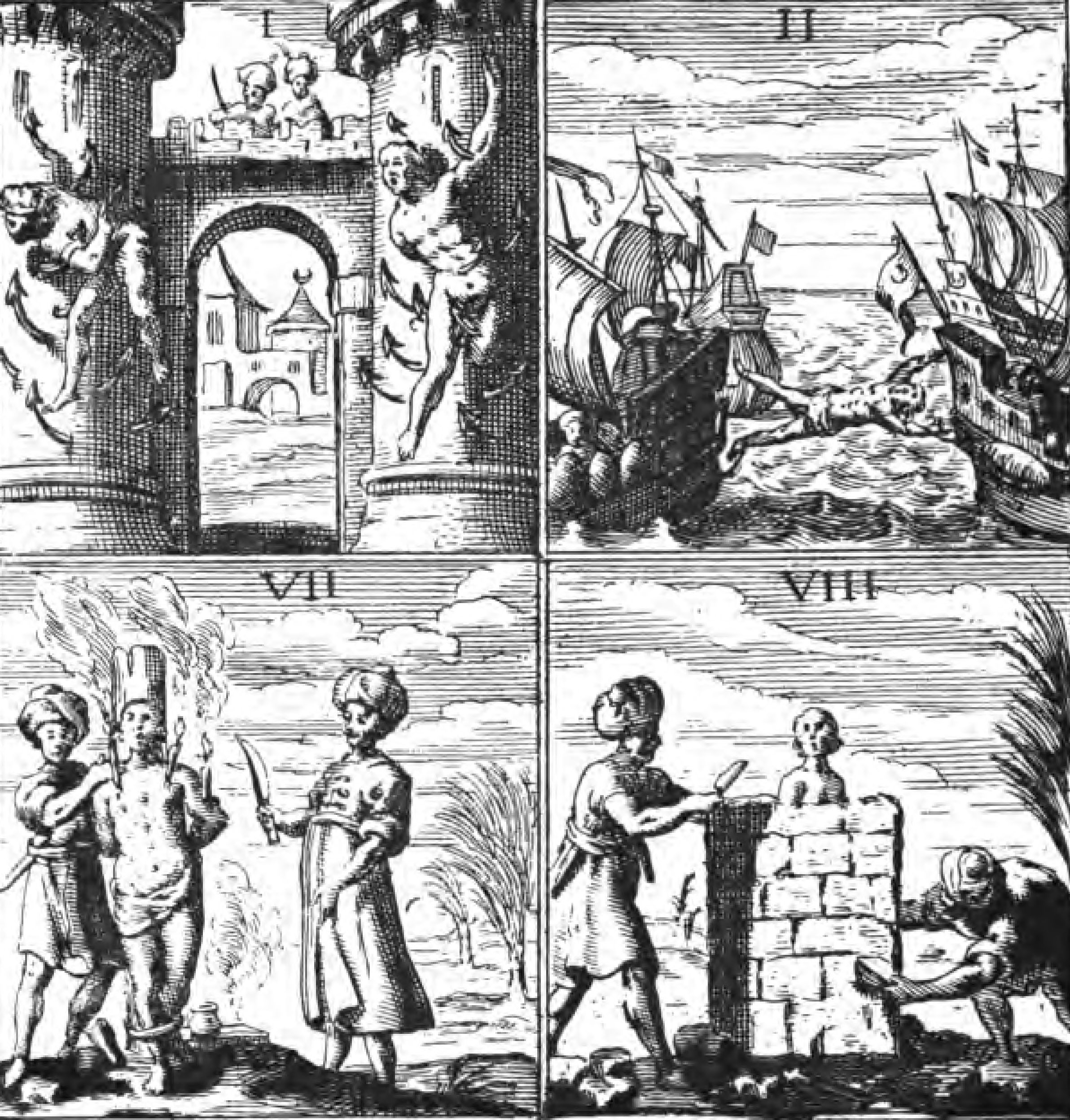 Torments of the Slaves, found in The Story of the Barbary Corsairs' by Stanley Lane-Poole, published in 1890 by G.P. Putnam's Sons.